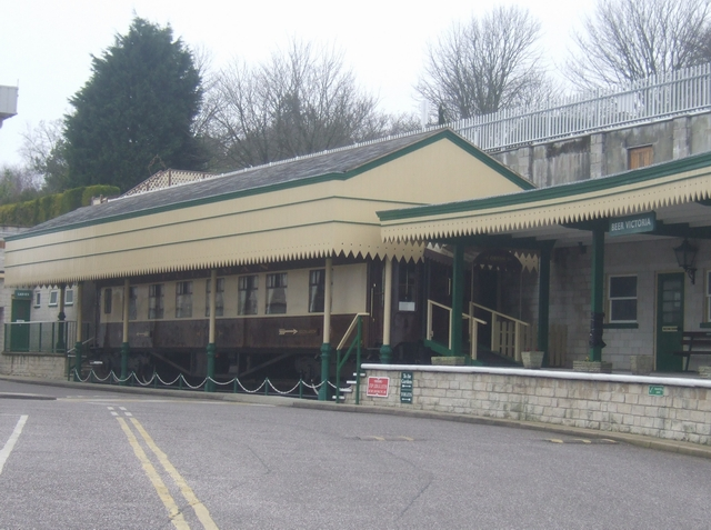 Pecorama Pleasure Gardens Model railway and garden themed attraction on the edge of Beer.